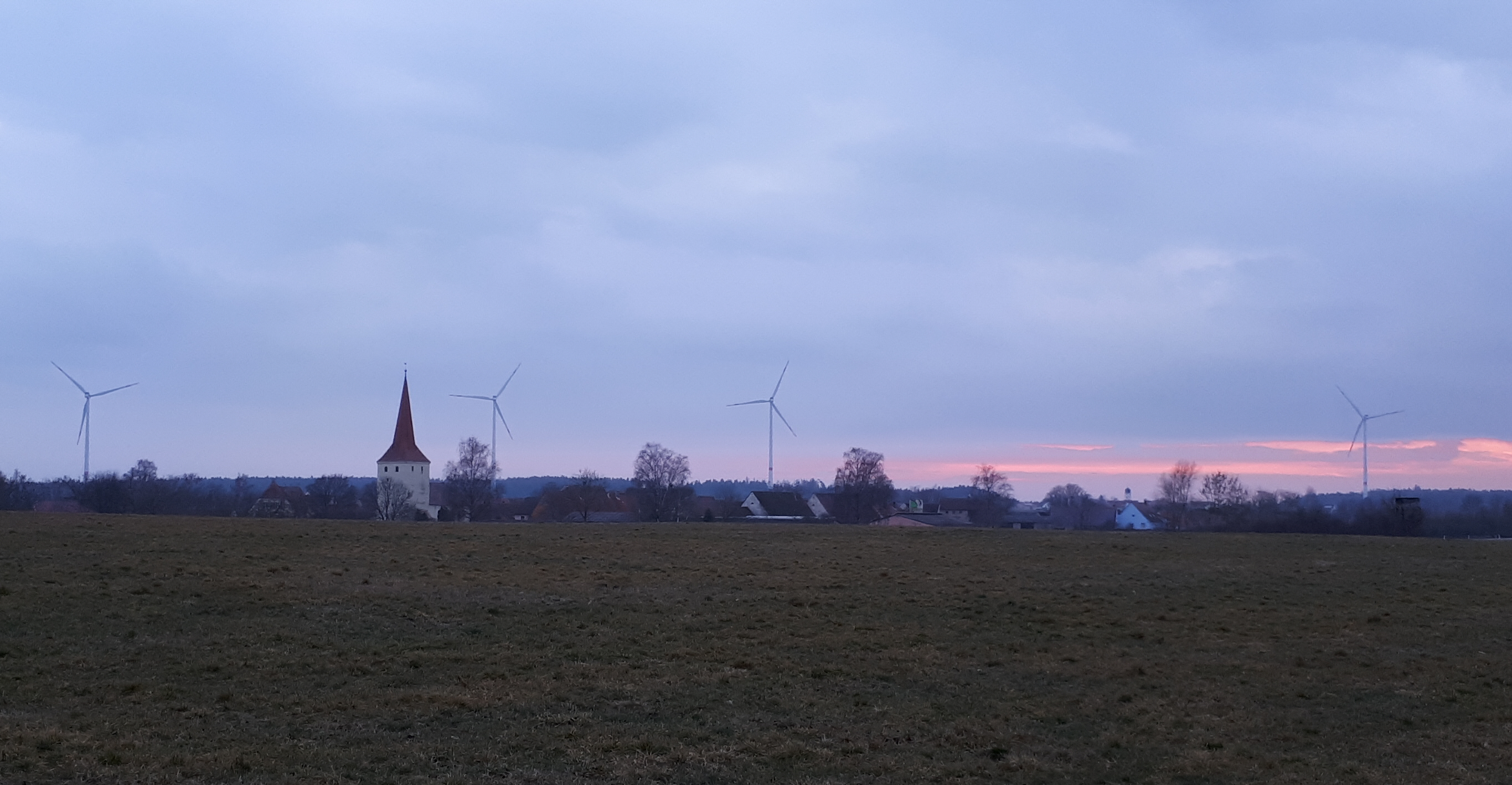 prospect of the village of Illenschwang, district of Ansbach, Bavaria, Germany